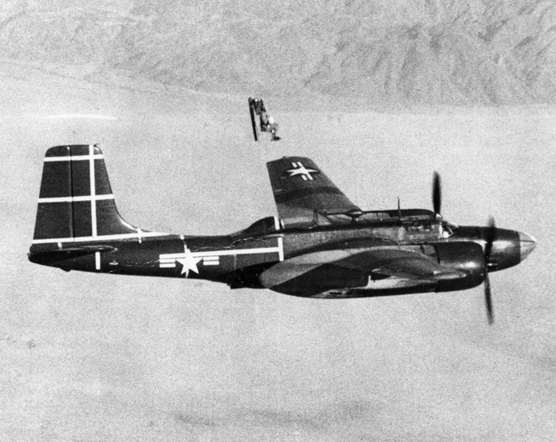 U.S. Navy Chief Machinist C.E. Storm is shot out of a Douglas JD-1 Invader during ejection seat tests over Naval Auxiliary Air Facility El Centro, California (USA), in 1951.